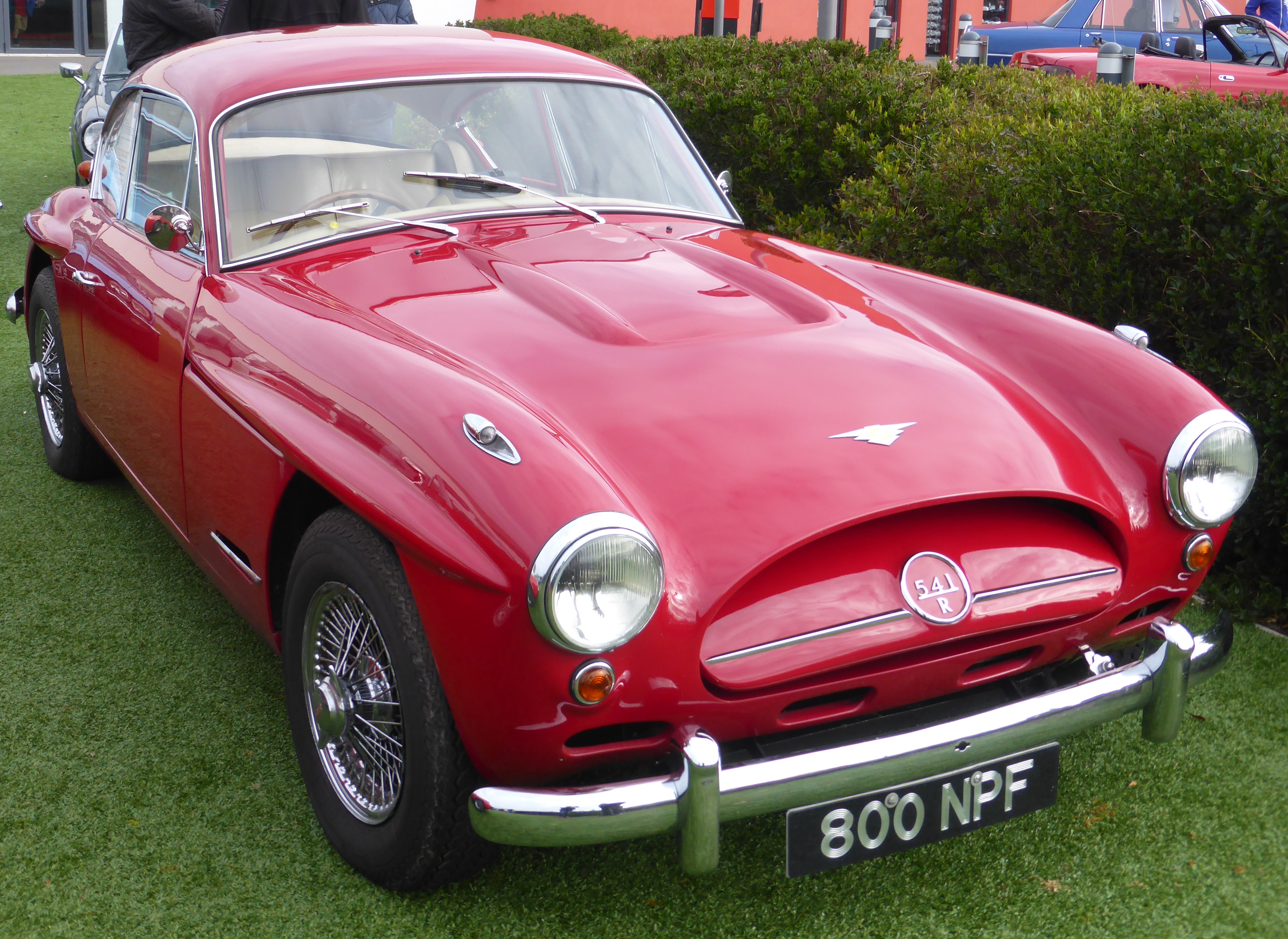 Haynes International Motor Museum Breakfast Club